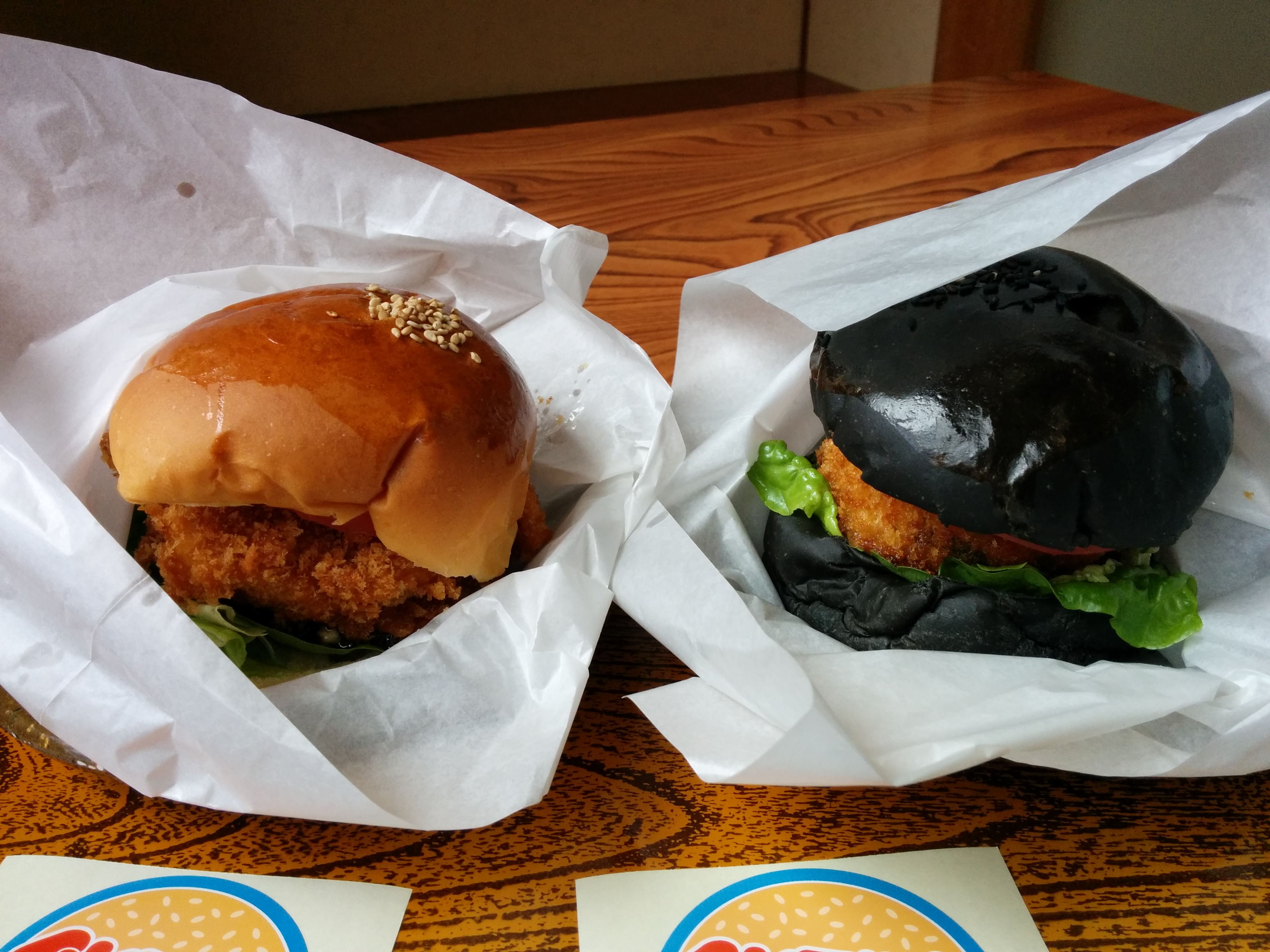 2014-06-07 WAJIMA city firework event 2014. On the way to the event place. Lunch at SHIMANOYU cafeteria in this hot spa. [1] [2] [3]